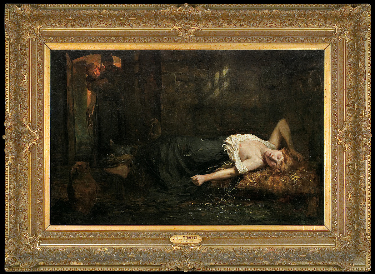 Paul Merwart La Nihiliste, 1882